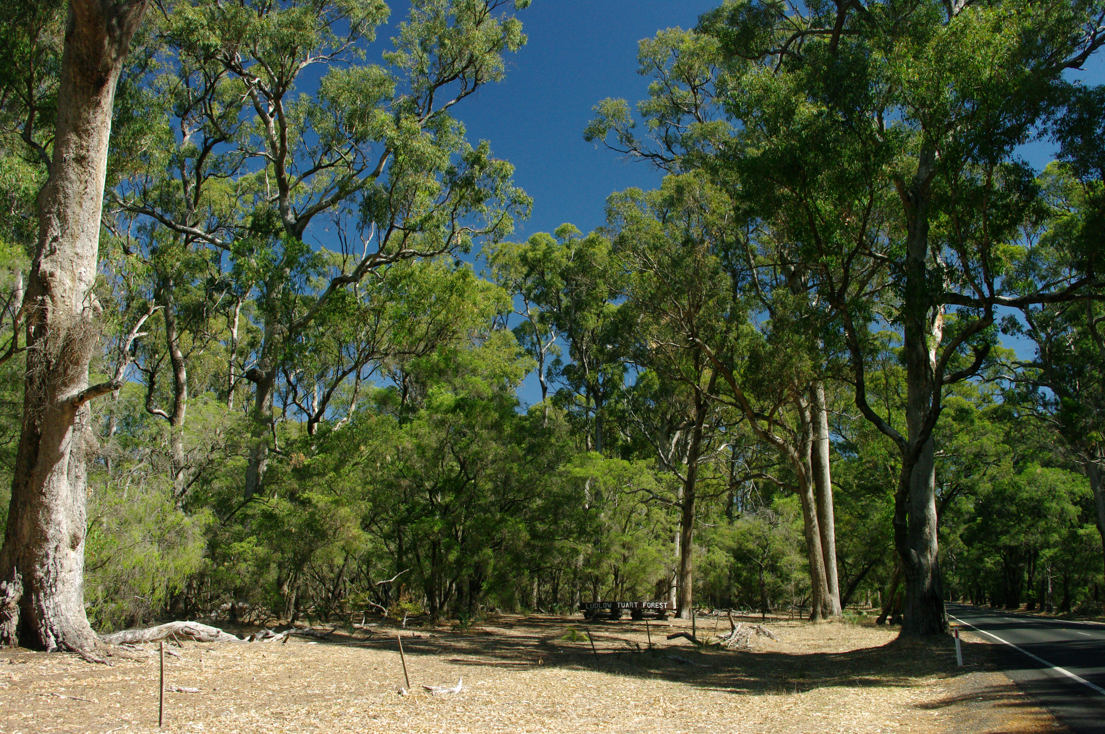 Taken in the Ludlow state forest